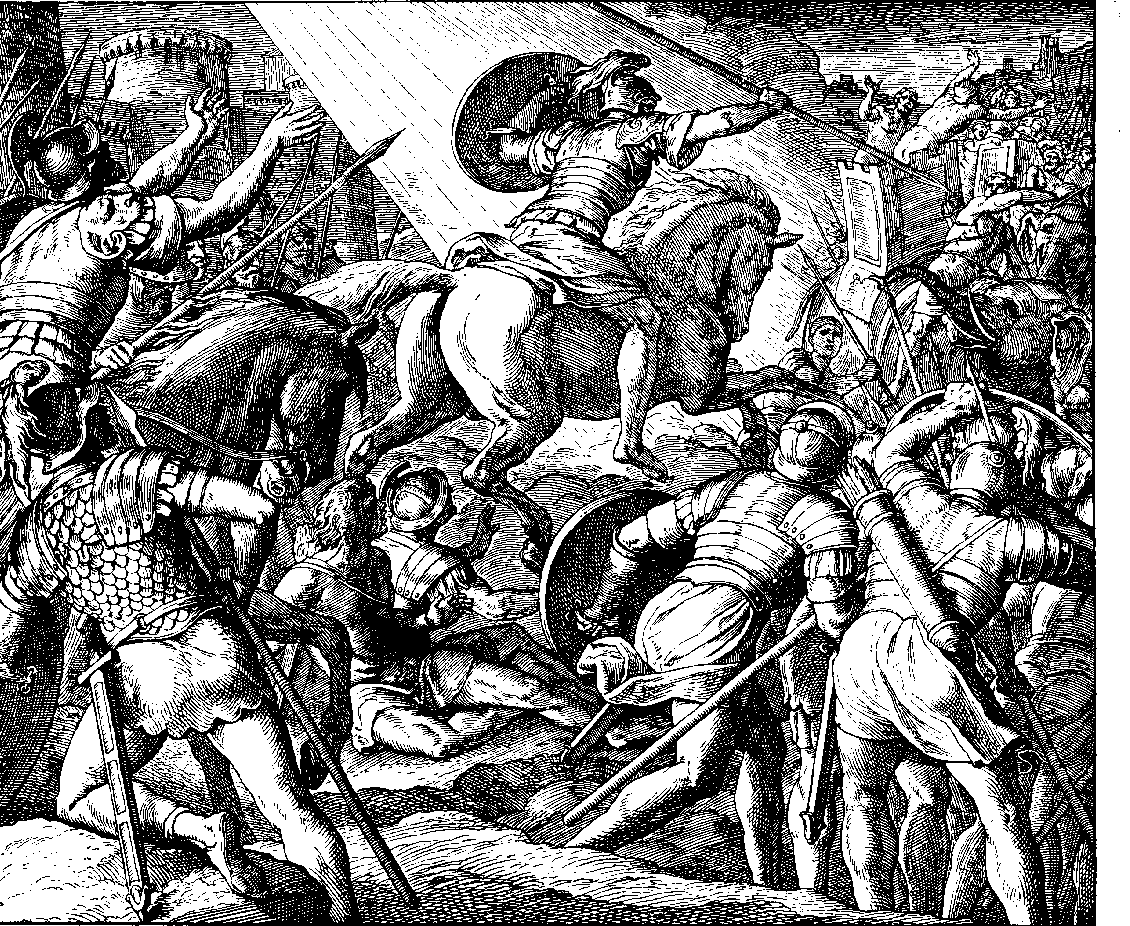 Woodcut for "Die Bibel in Bildern", 1860.